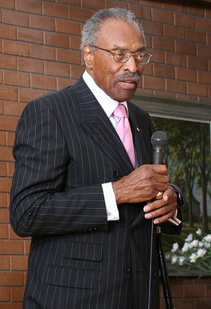 Lincoln Alexander speaking